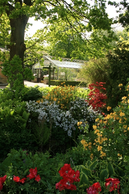 RHS Harlow Carr One of the greenhouses seen across a rhododendron border near the tea house.